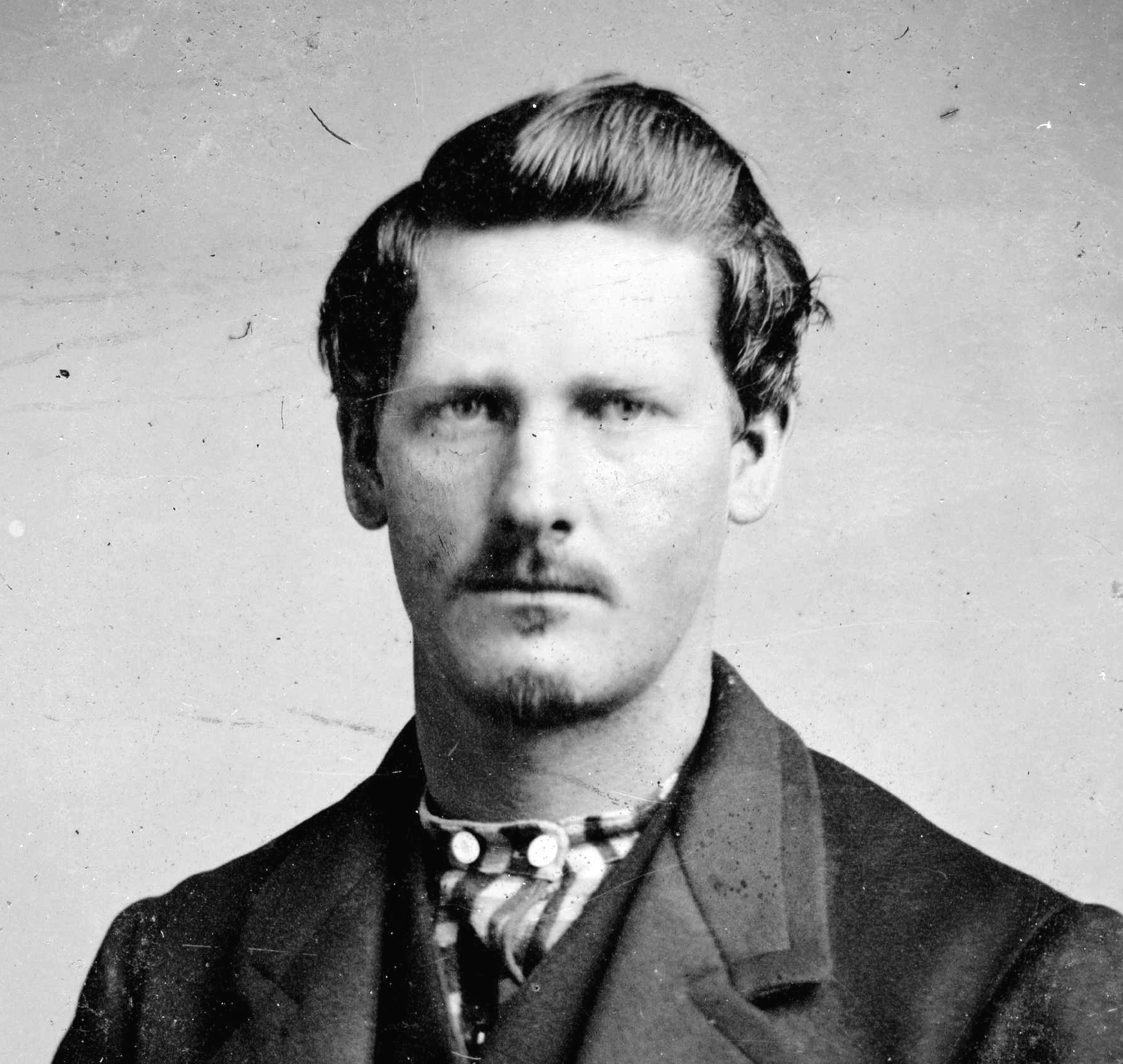 Wyatt Earp at age 21 in 1869 or 1870, around the time he was married to his first wife, Urilla Sutherland. Probably taken in Lamar, Missouri.